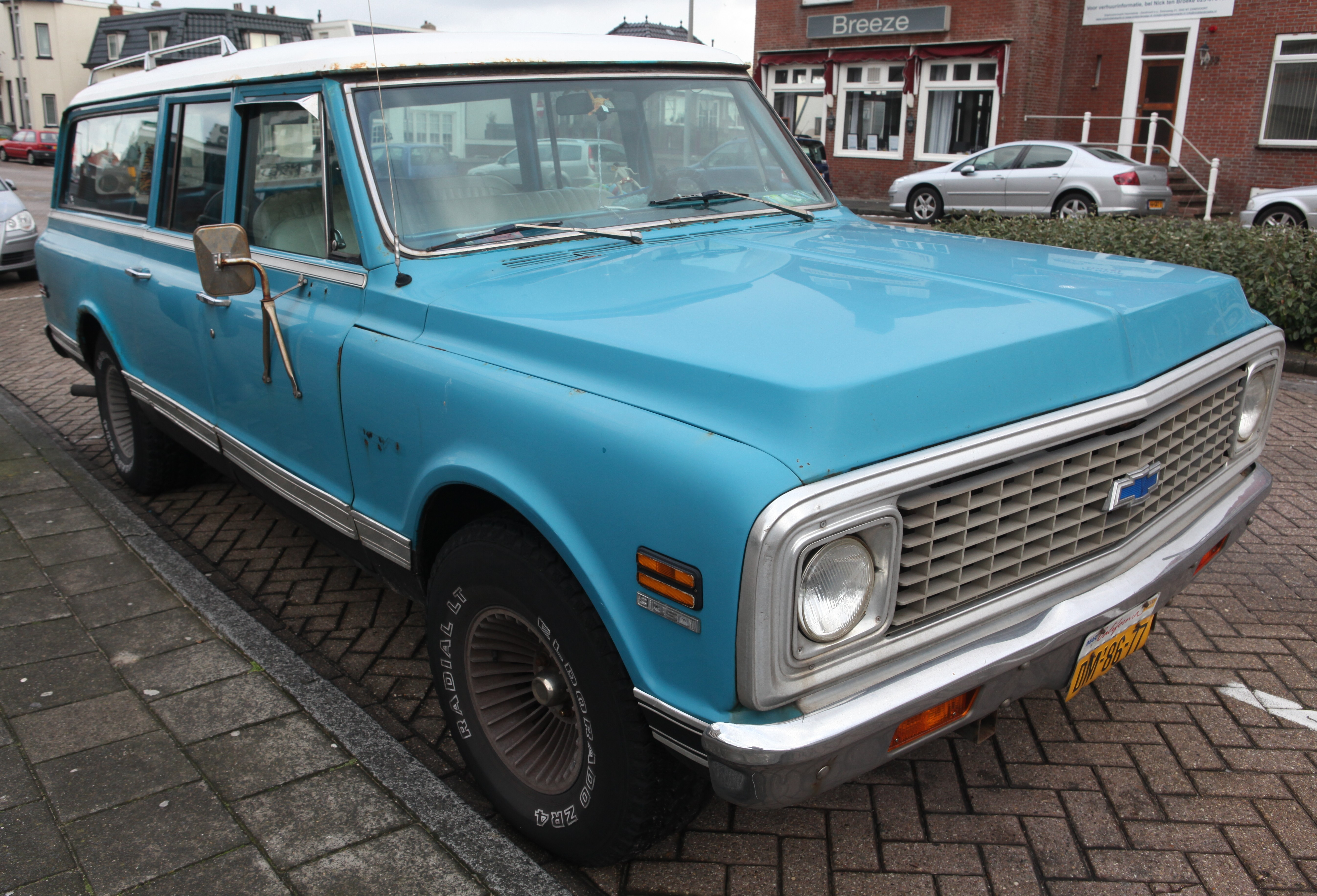 Chevrolet Suburban Custom 10